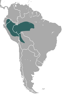 White-bellied Slender Mouse Opossum (Marmosops noctivagus) range